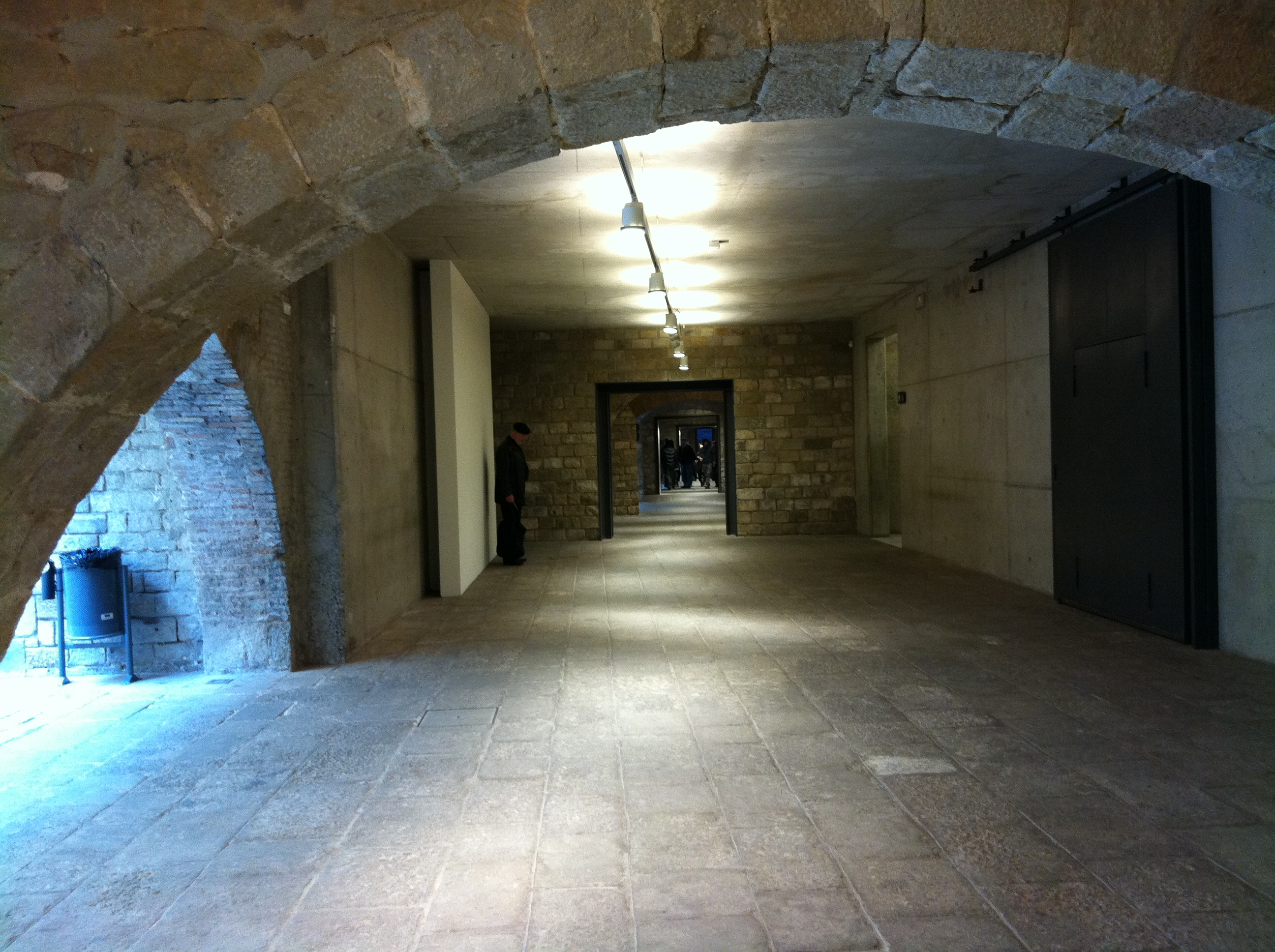 Interior walk through the 5 buildings of Museu Picasso